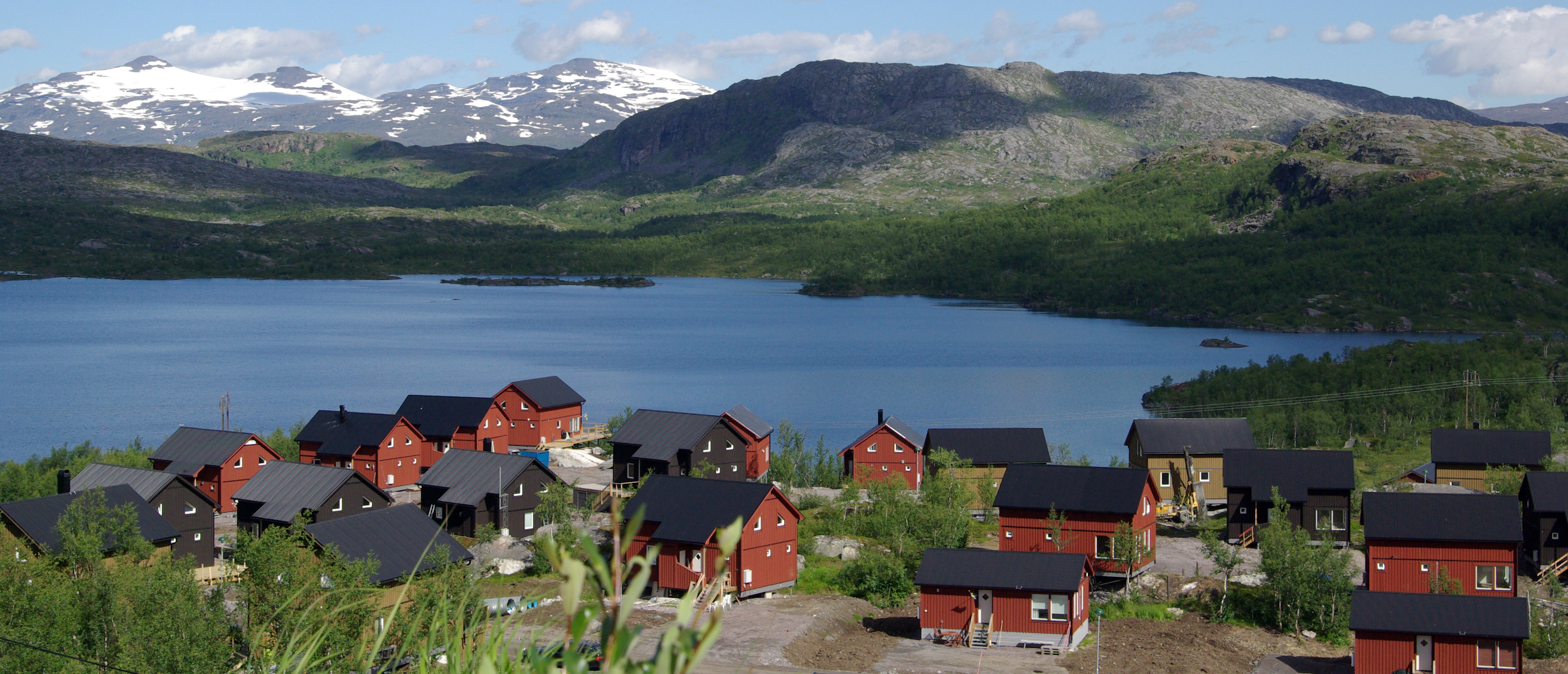 Cabins in Norrskensdalen, Katterjåkk near Riksgränsen in the north of Sweden.